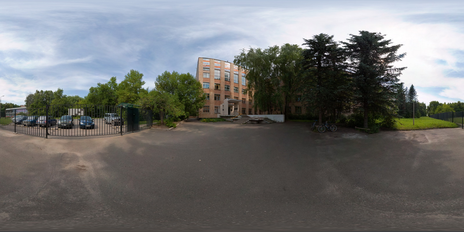 Institute of Cell Biophysics RAS